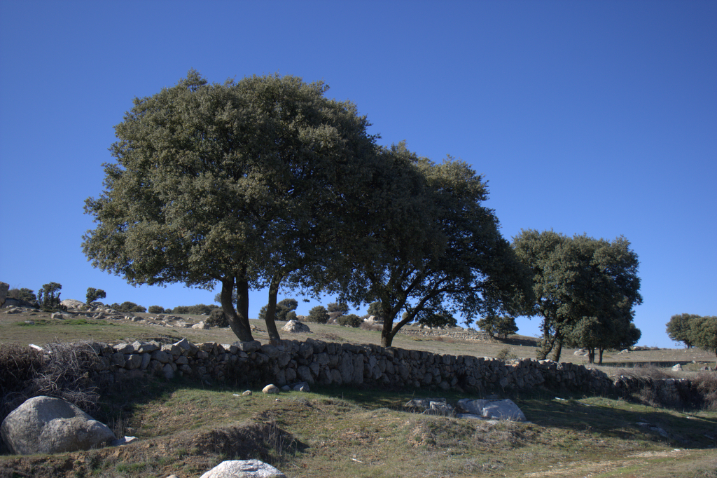 Quercus ilex. Colmenar Viejo, Madrid. Spain